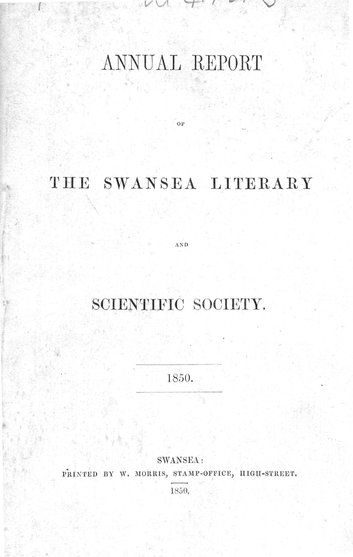 The annual periodical of the Swansea Literary and Scientific Society, which mainly published articles on science, history and antiquarianism, alongside reports of the society's activities.